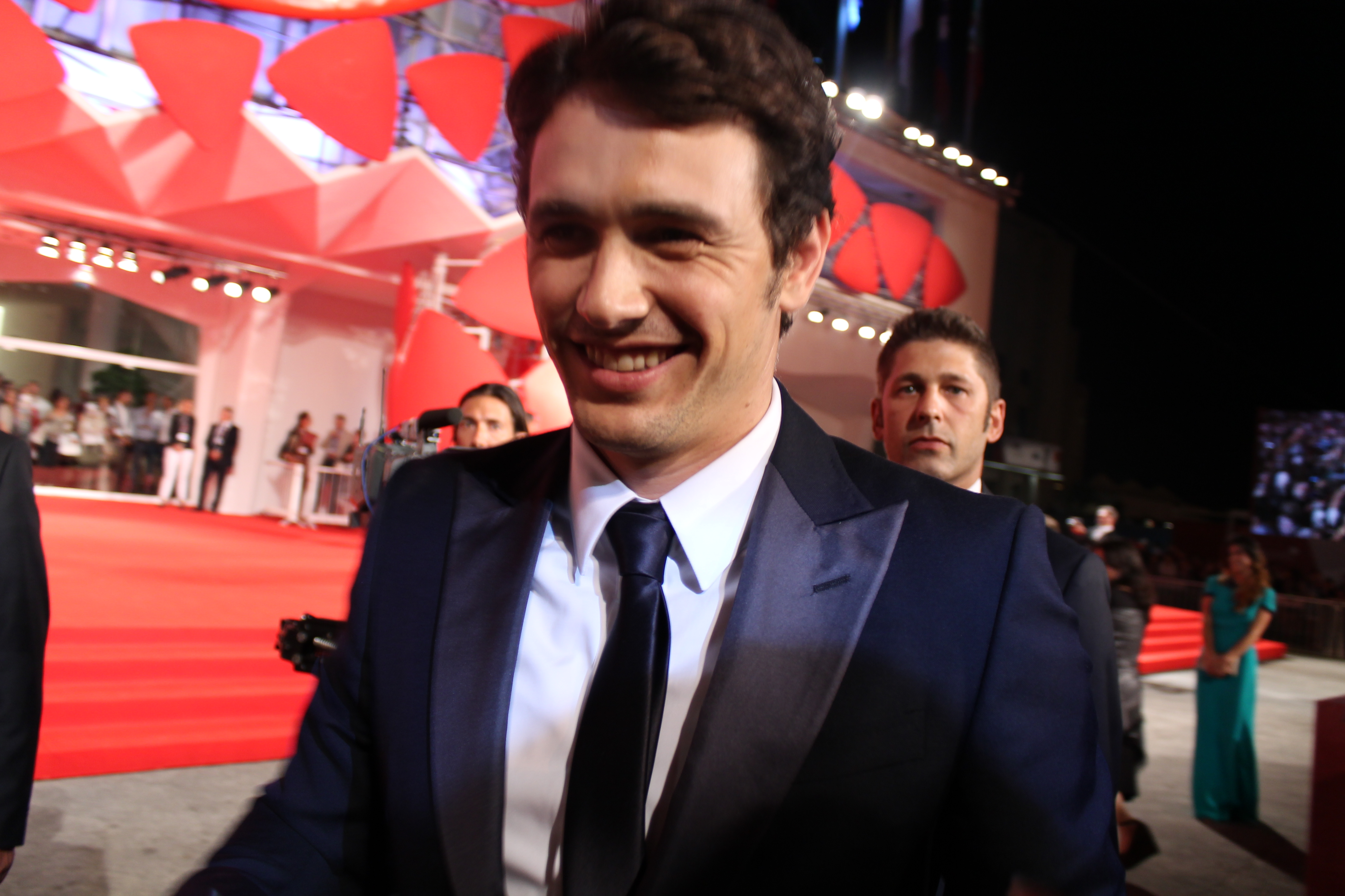 Actor / director James Franco, 70th Venice Film Festival, September 2013